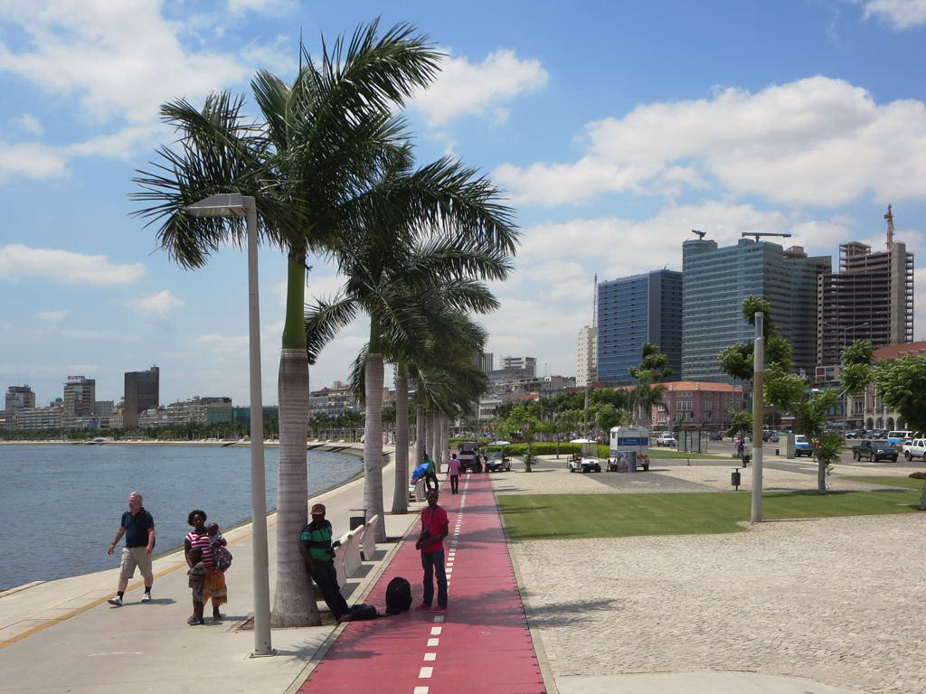 The Marginal promenade (Avenida 4 de Fevereiro) runs all along the south shore of the Baia de Luanda in Luanda, Angola.